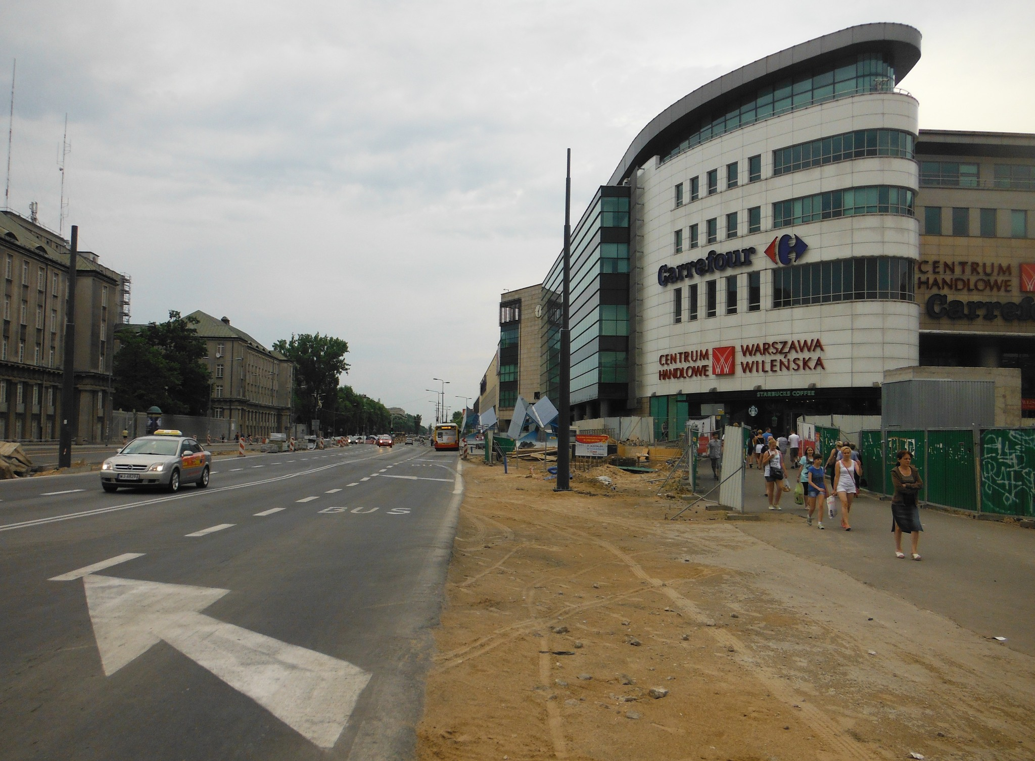 Dworzec Wileński metro station (under construction) in Warsaw (6th of July 2014).